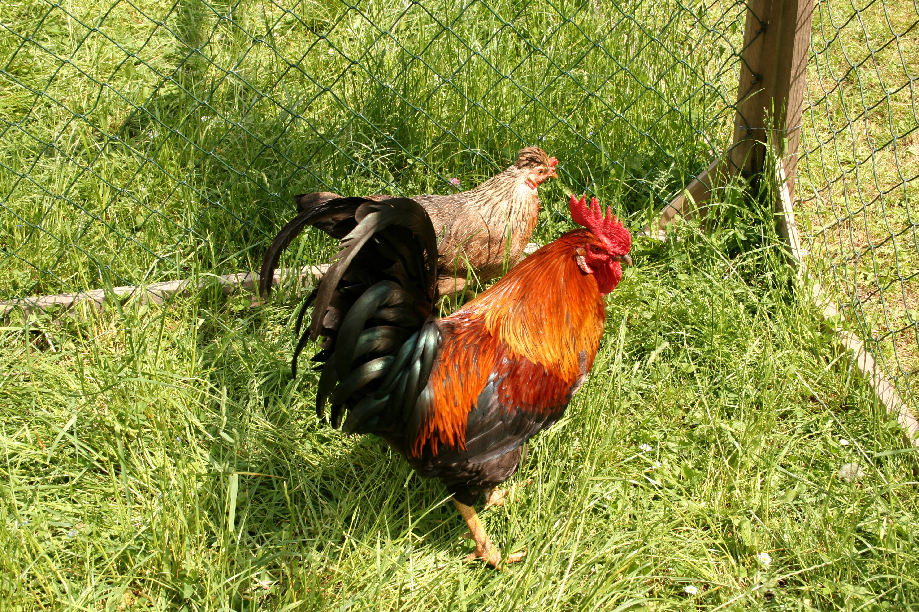 "Altsteirer" chicken in Styria, Austria, Europe